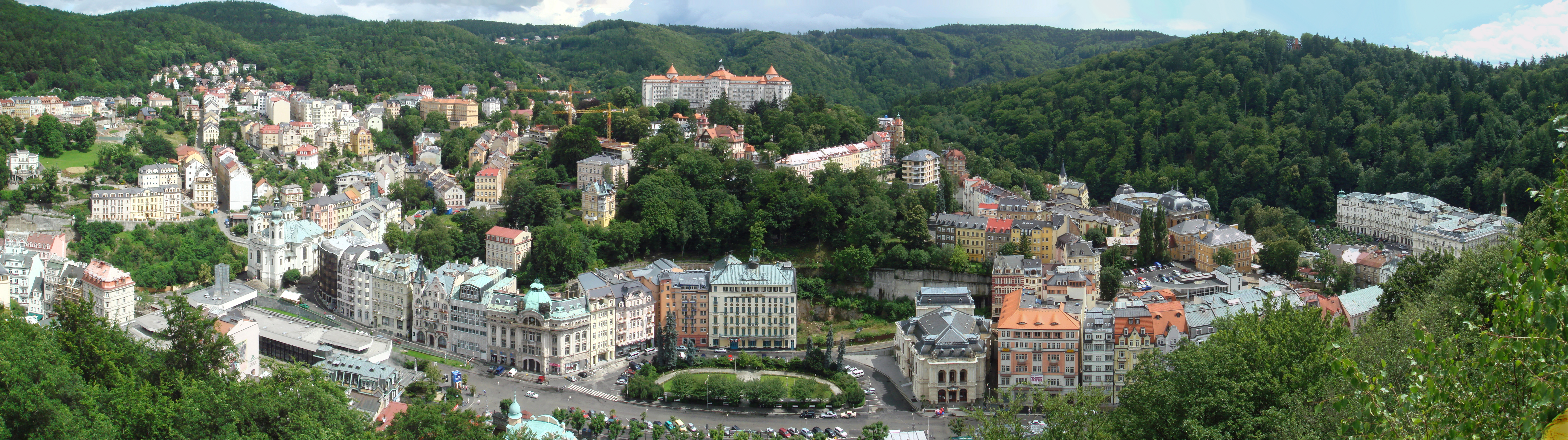 Panoramic photo of Karlovy Vary, Czech Republic. Major sites in photo, from left to right: The dark grey, Soviet era Thermal Spring Colonnade (also called Hot Spring Colonnade or Sprudel) features a glass chimney. Directly above it sits the twin-steeple Church of St. Mary Magdalene. The large, stately building on the center hill is the Hotel Imperial. Below it, to the right of the square, is the Opera House. The Grandhotel Pupp is the large white building to the far right. This was stitched together from five photos taken in quick succession.